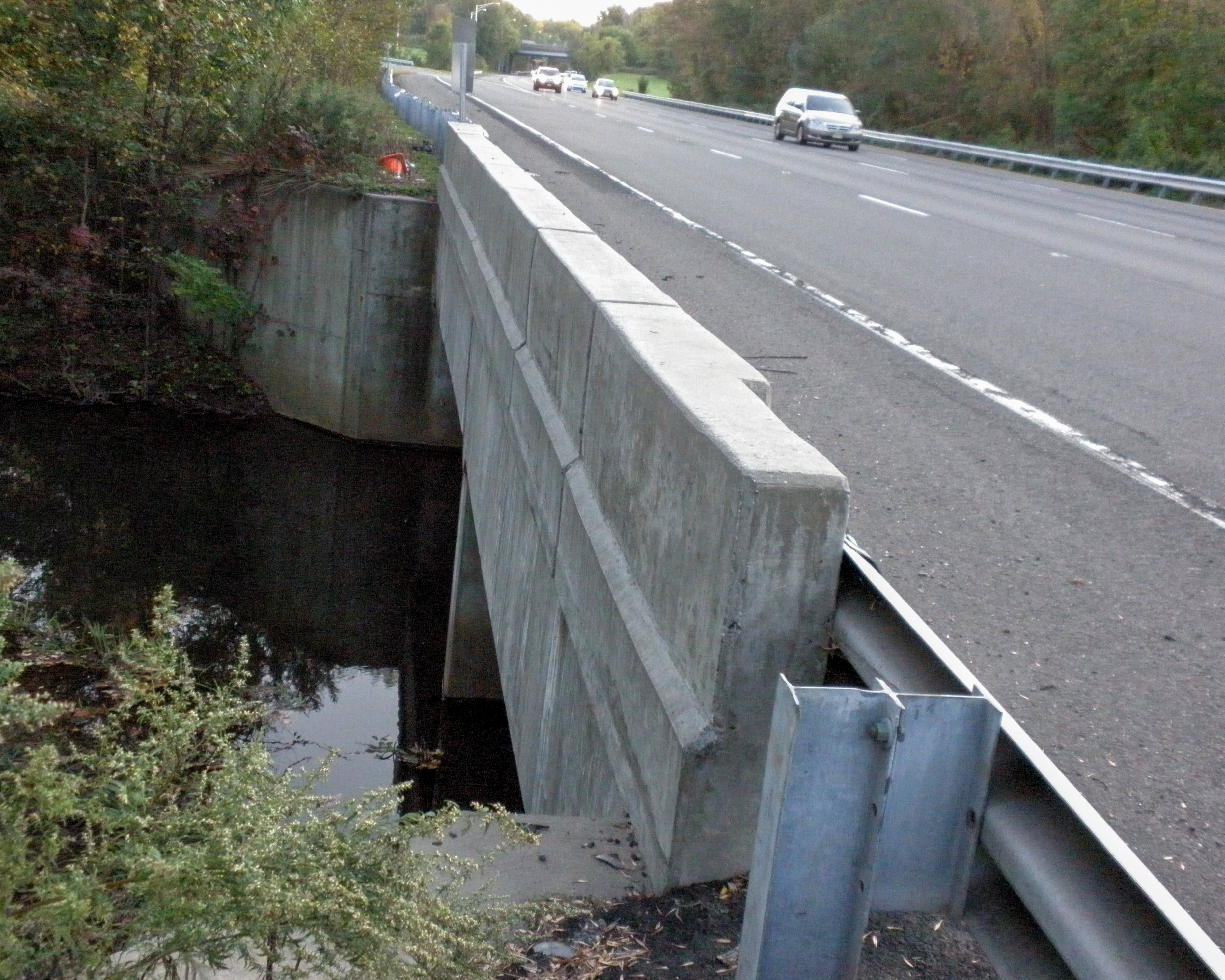 Interstate Highway 287 Northbound Bridge over the Passaic River, Basking Ridge Bernards - Harding Township, New Jersey (looking south)